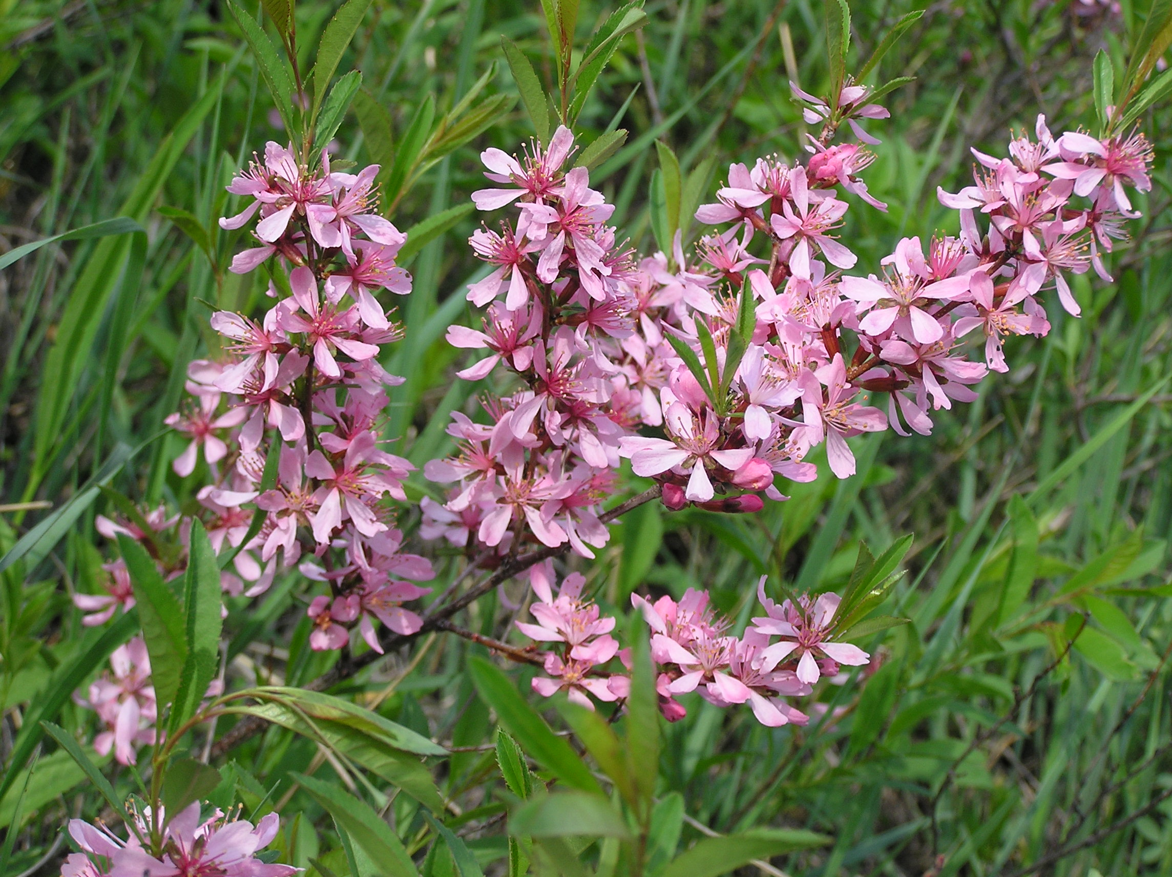 Prunus tenella (Batsch.; syn.: Amygdalus nana L., Prunus nana L.) in bloom. Habitat: dry meadow on a south facing slope. Vicinity of Saratov city, Russia.